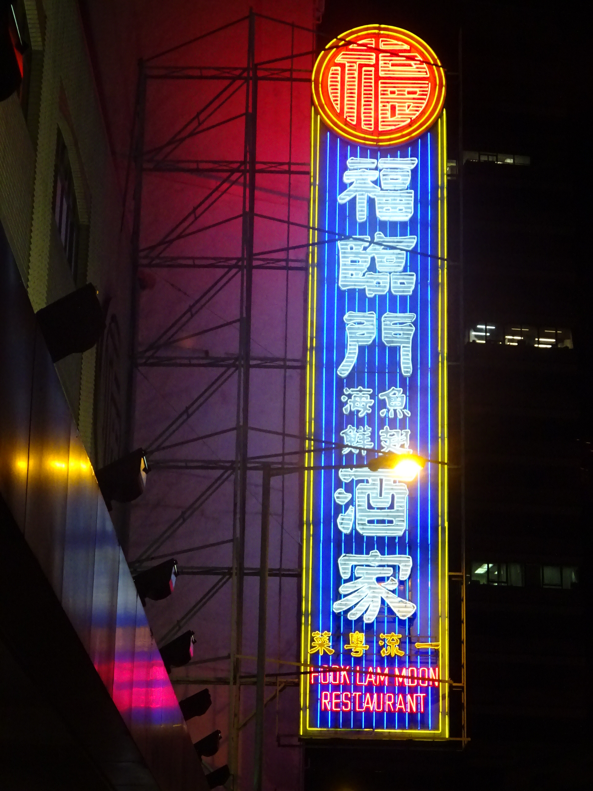 福臨門魚翅海鮮酒家, Fook Lam Moon Restaurant, Wan Chai, Hong Kong